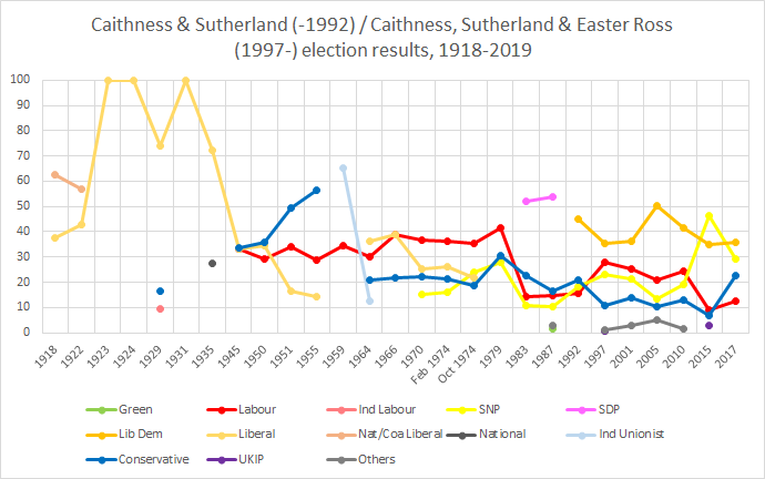 Caithness & Sutherland election history